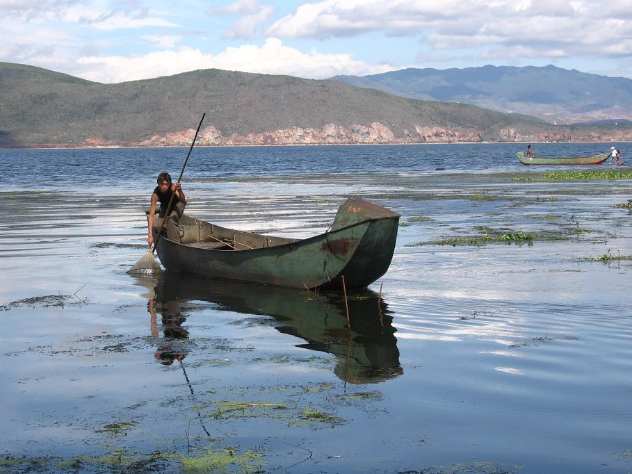 lashi wetland (拉市海湿地), 丽江, Yunnan China. Taken by Ariel Steiner.